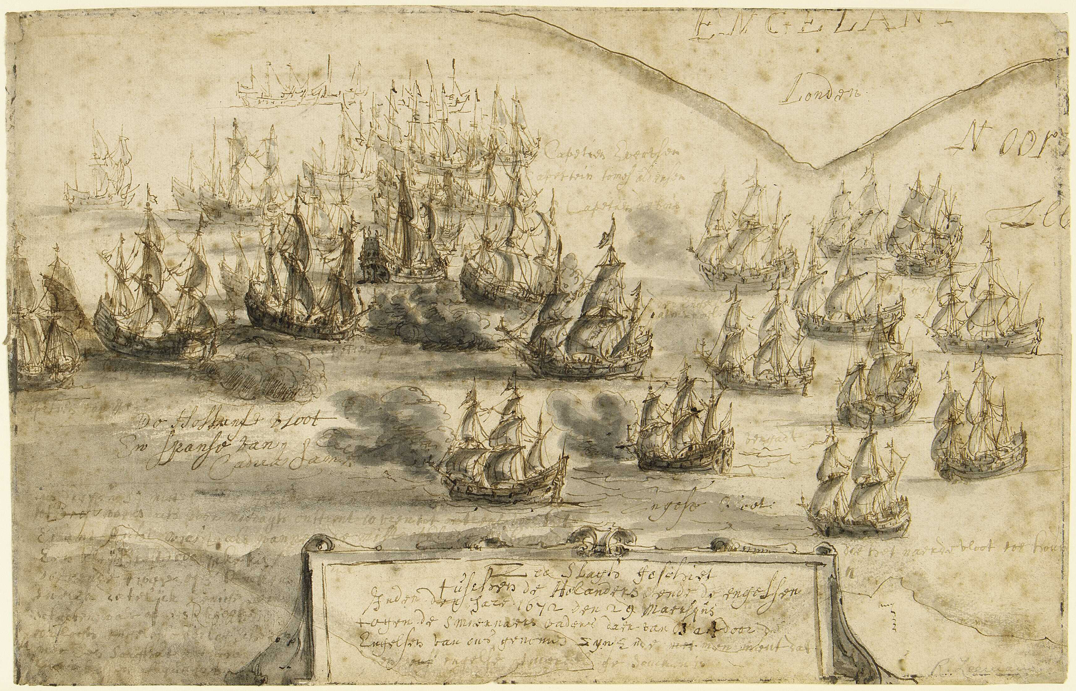 Holme's attack on the Smyrna Fleet, 12 March 1672 This provocative and well sustained action by a small squadron under Sir Robert Holmes and Sir Frescheville Holles against the Dutch Smyna convoy returning from the Mediterranean launched the Third Dutch War. The drawing is heavily annotated by a Dutch hand with details of the first day of the battle. It combines topographical accuracy with cartographic accuracy. The double portrait of Holmes and Holles by Sir Peter Lely is in the Museum's collection and probably commemorates the action.